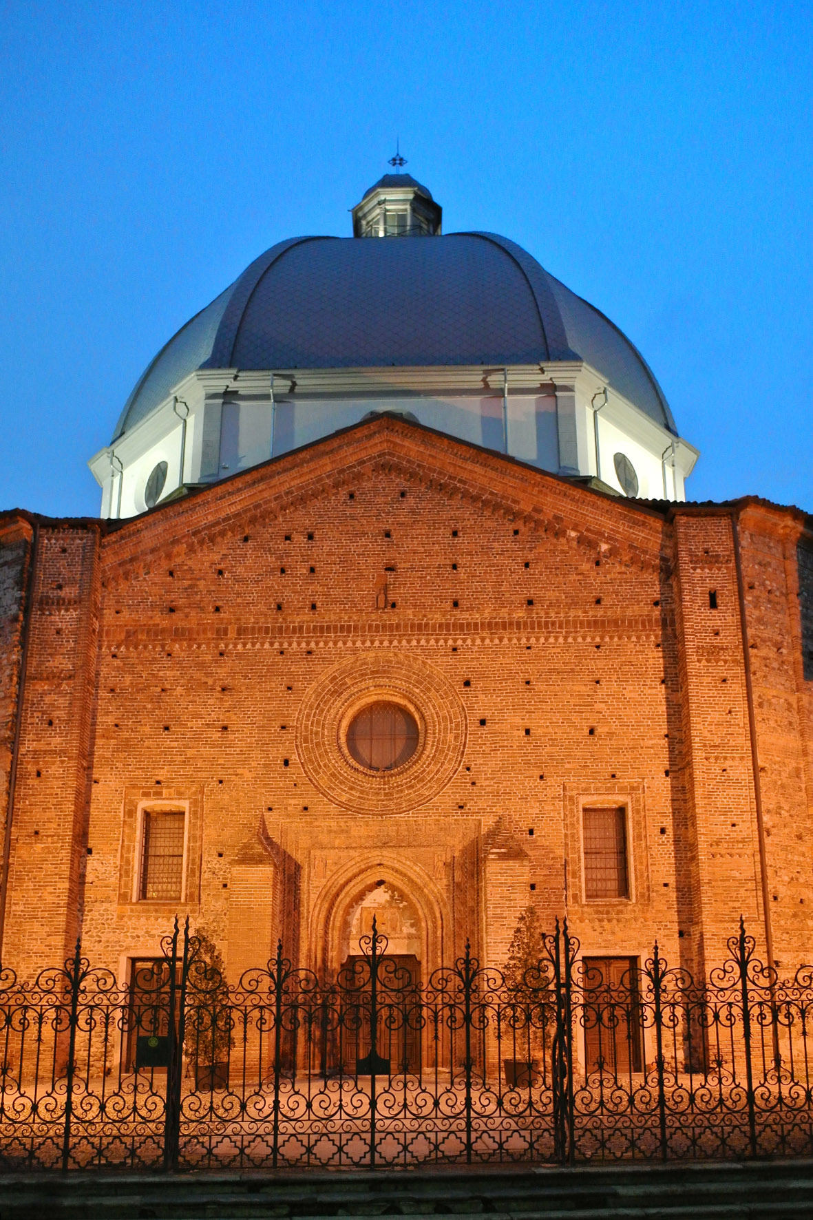 The Saint Pietro Church